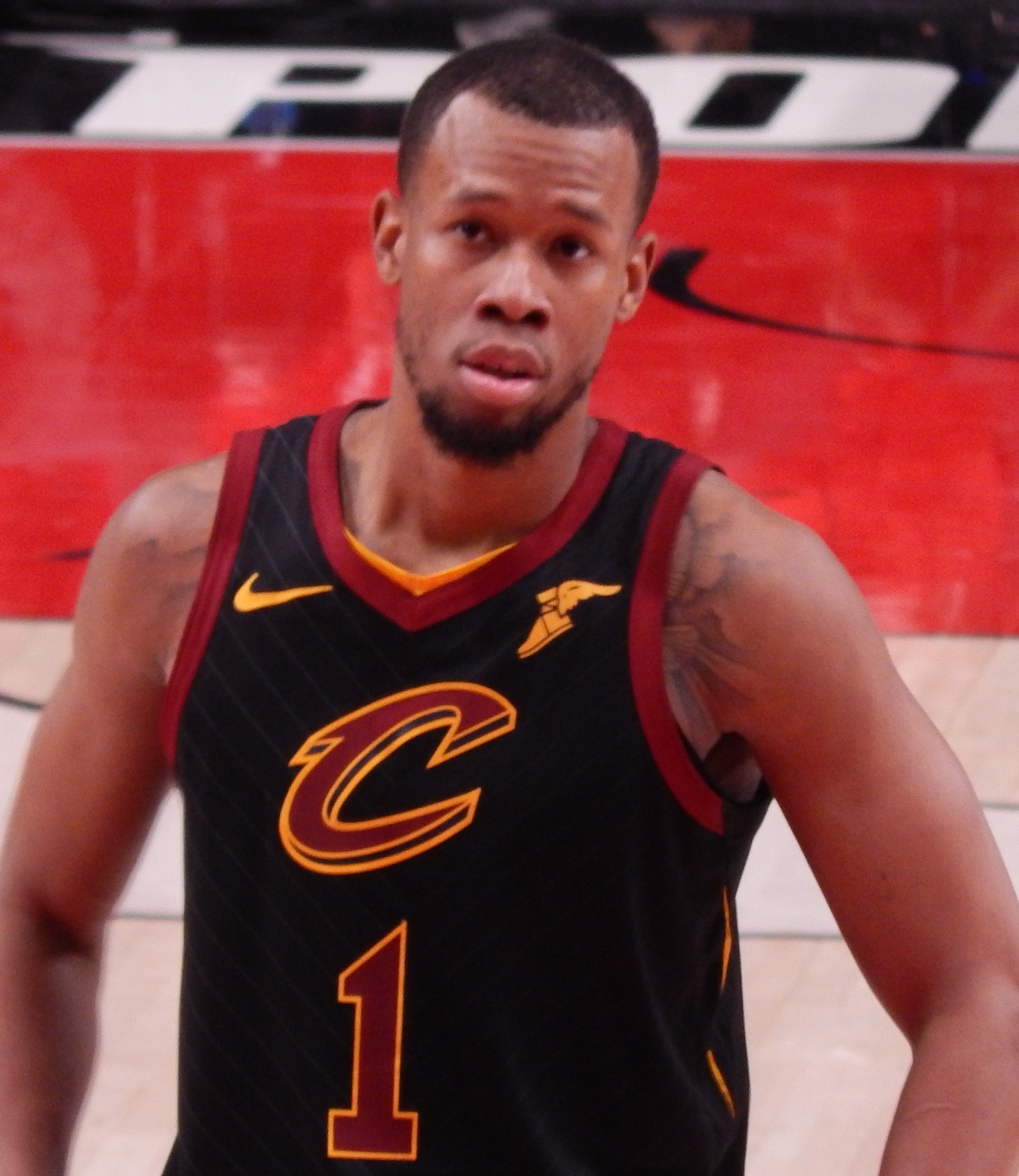 Rodney Hood #1 of the Cleveland Cavaliers against the Portland Trail Blazers on January 16, 2019 at Moda Center in Portland, Oregon.